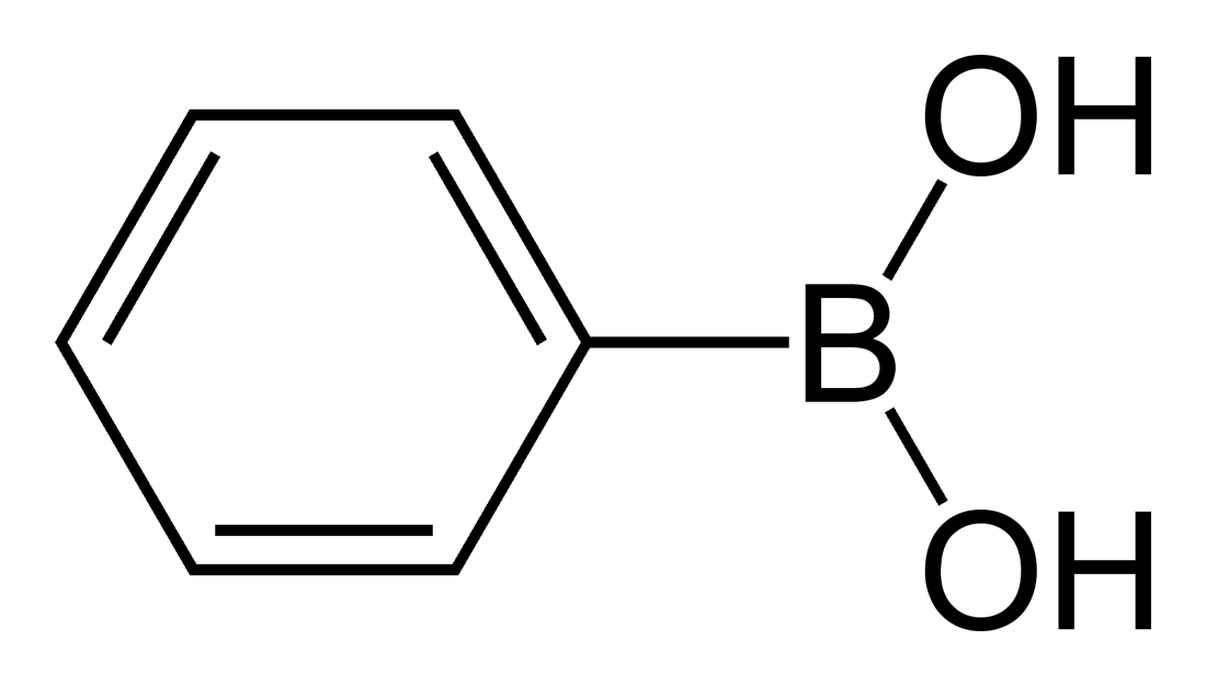 Skeletal formula of the phenylboronic acid molecule, C6H7BO2. Structure from J. Phys. Org. Chem. (2008) 21, 472-482.